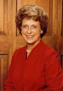 1984 Congressional Portrait